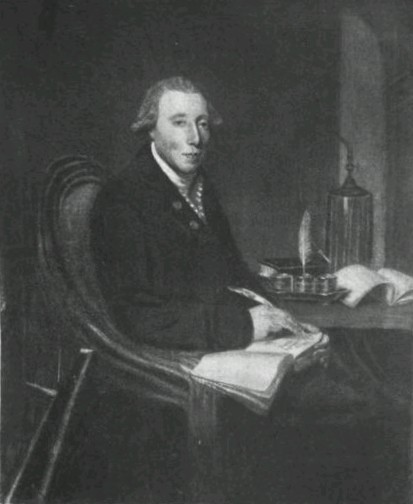 Portrait of Richard Kirwan